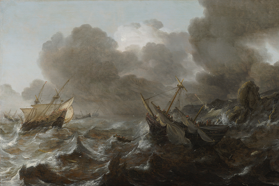 Ships in Distress on a Stormy Sea by Jan Porcellis This image is available from the Netherlands Institute for Art Historyunder digital ID 39097. This tag does not indicate the copyright status of the attached work. A normal copyright tag is still required. See Commons:Licensing.